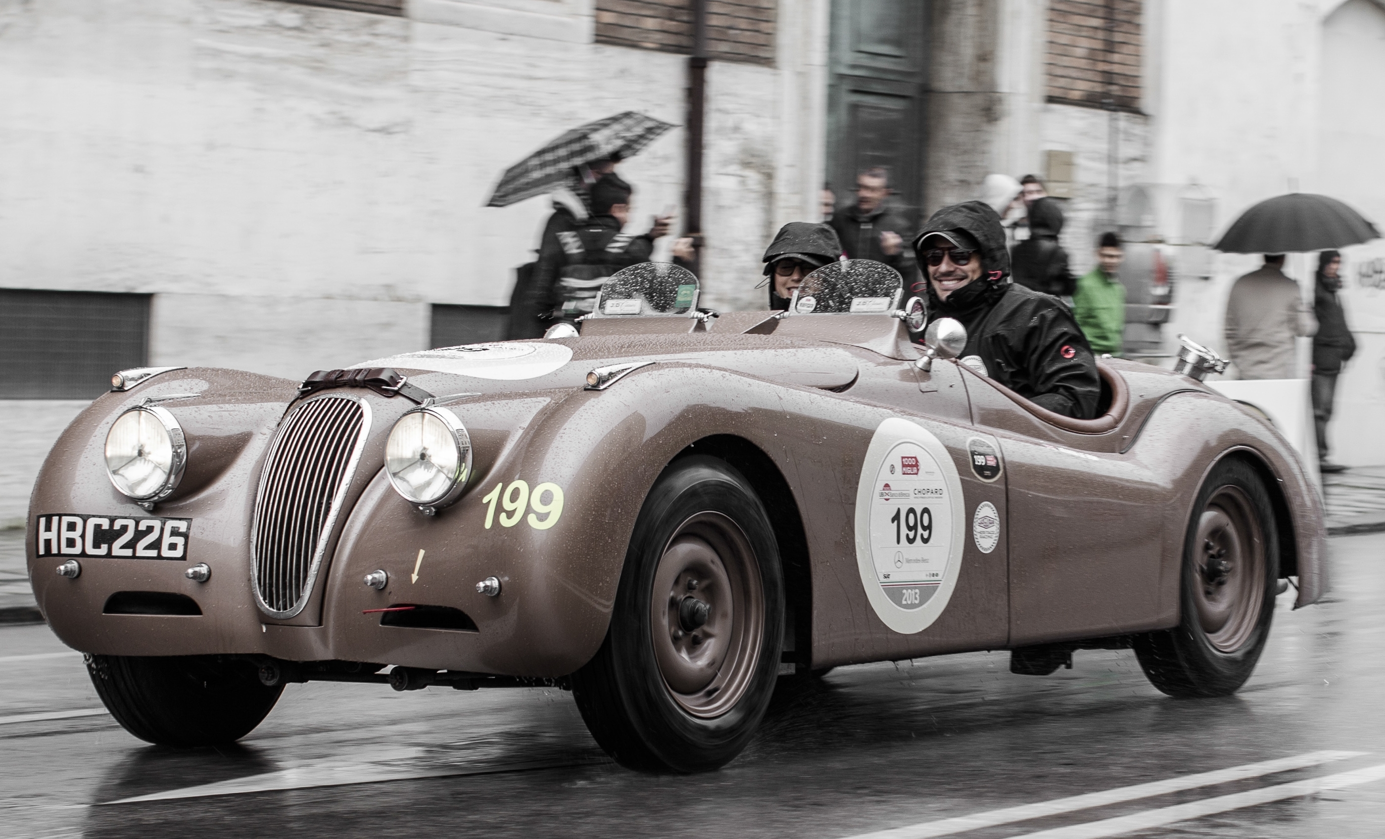 Yasmin and David Gandy - driving a vintage Jaguar during the 2013 Mille Miglia (close-up)